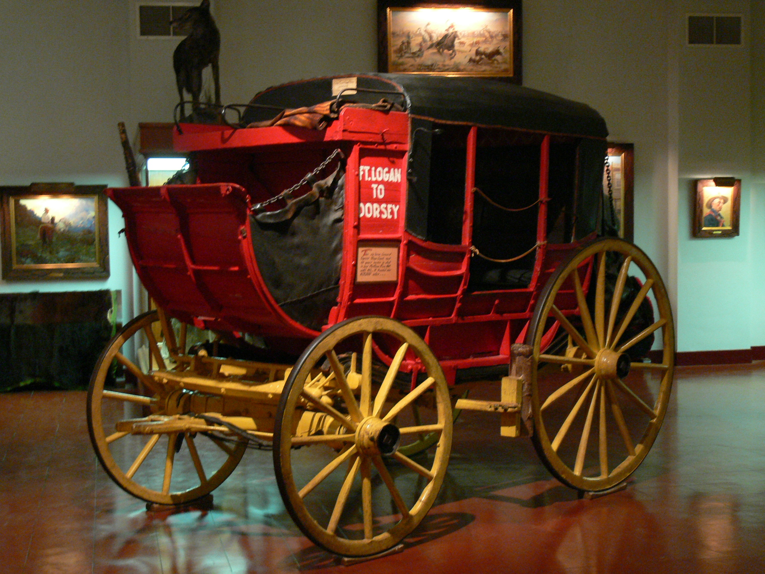 Woolaroc, Oklahoma. Stagecoach.